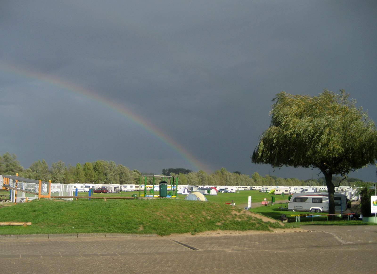 Rainbow over camping Grav-Insel near Wesel